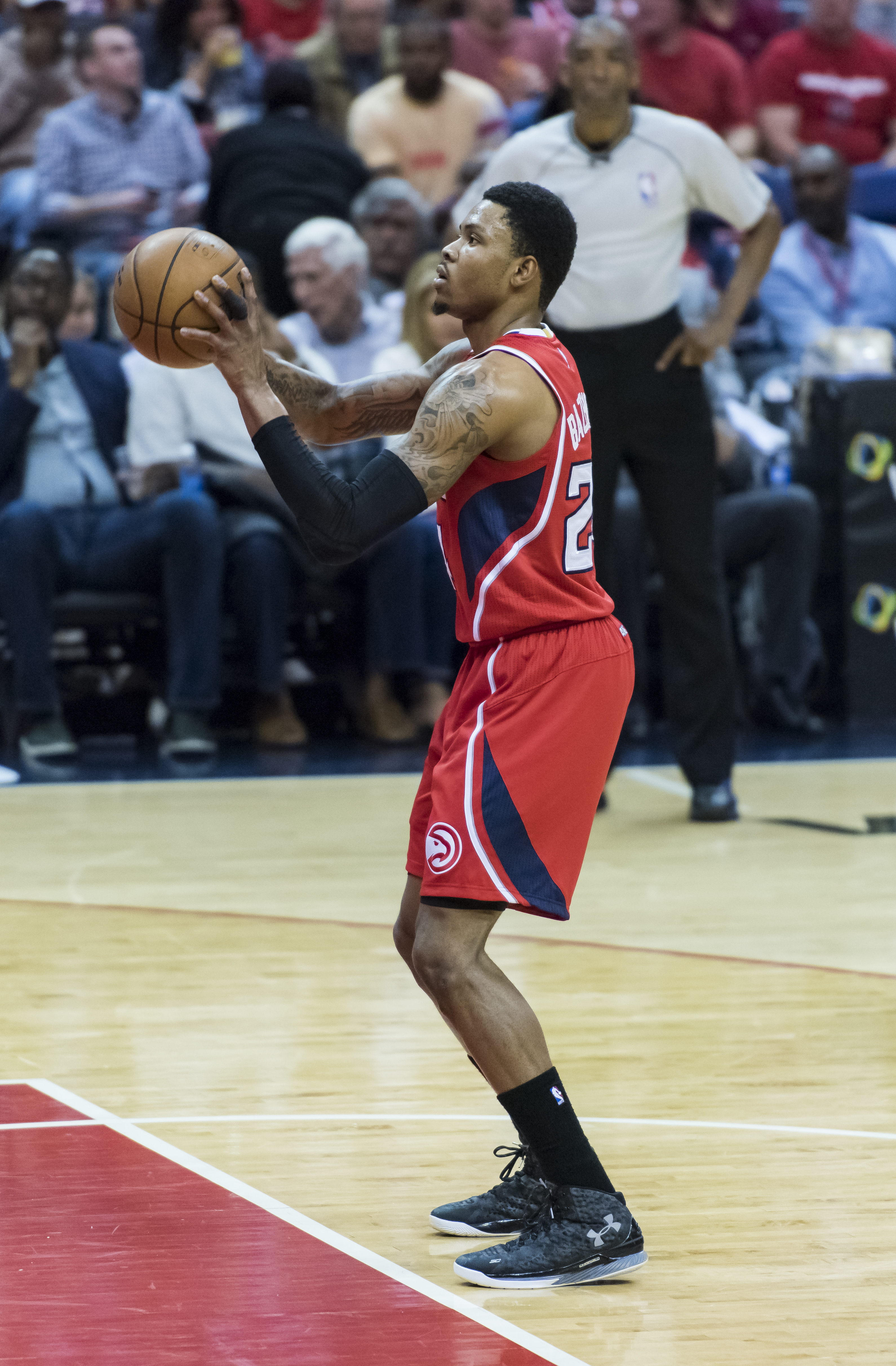 kent bazemore atlanta hawks 2015 verizon centre v washington wizards